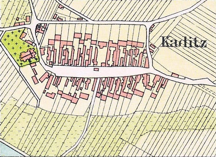 Dresden (Germany), ancient center-village: Kaditz (district), ribbon development (according to ground map of 1864)